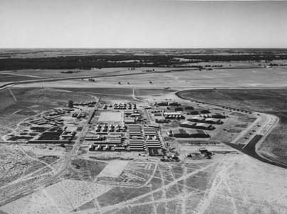 During World War II, the airfield at Deniliquin was primarily a training base. From June 1941 until August 1944, 2206 pilots graduated from No 7 Service Flying Training School. As the end of the war neared, a number of operational units were moved to the base to be disbanded.